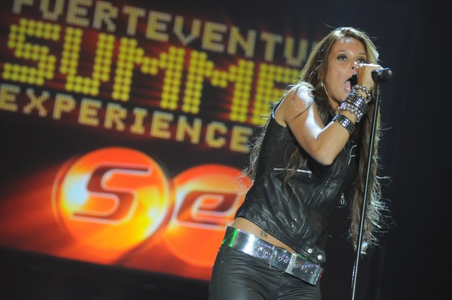 Summer Experience 2008